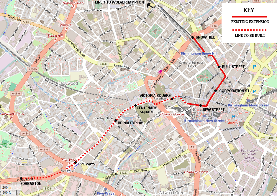 Map of existing and future extensions of the Midland Metro Line 1 in Birmingham. Map is based upon [1] This map may be incomplete, and may contain errors. Don't rely solely on it for navigation.